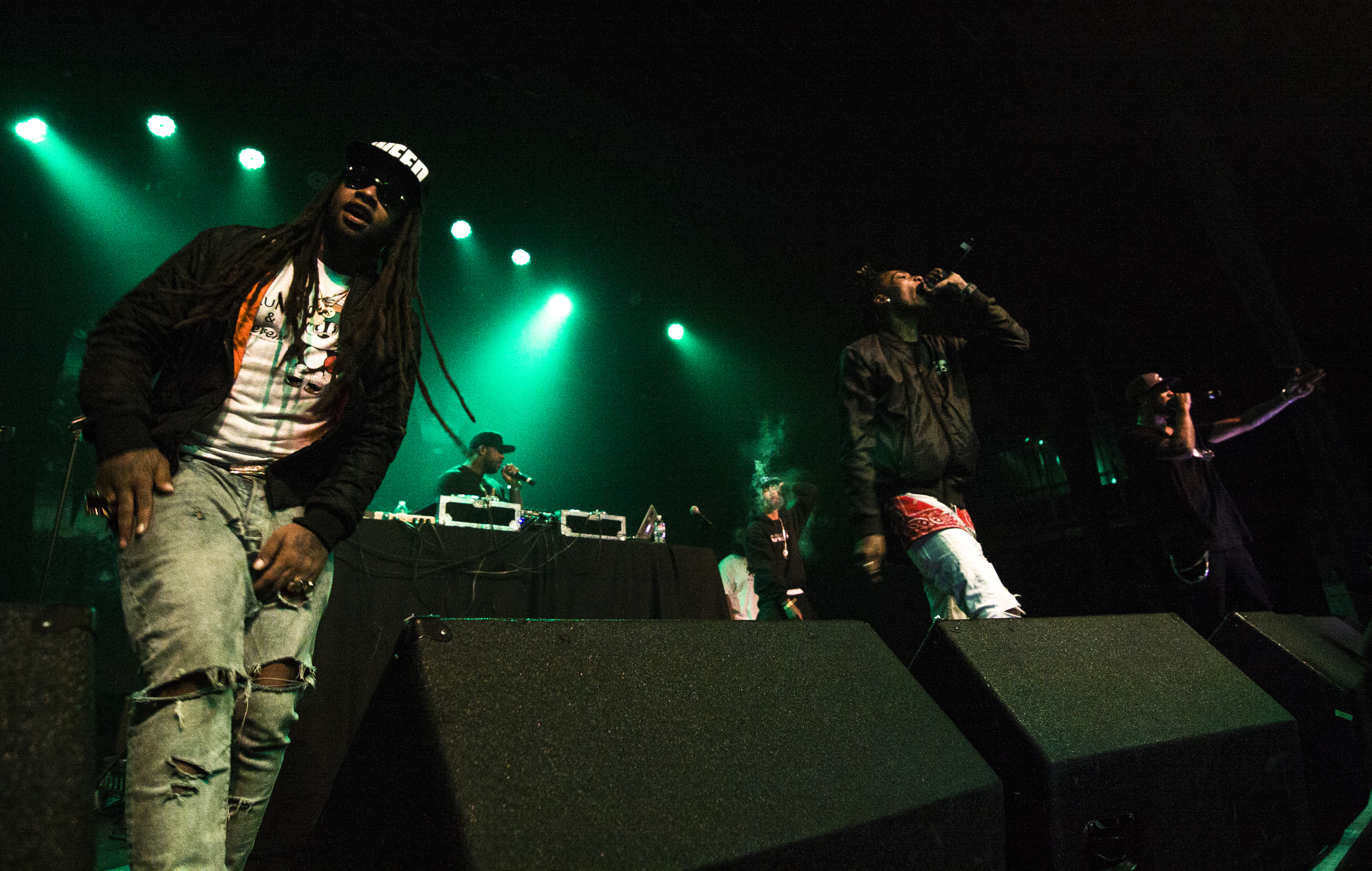 Image of American rappers Ty Dolla Sign, Wiz Khalifa and Chevy Woods performing during November 2013.